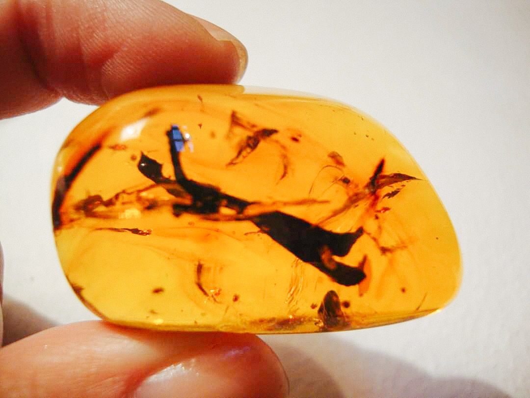 Amber drop purchased in Simojovel, Chiapas